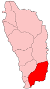 Map of Dominica showing Saint Patrick parish.